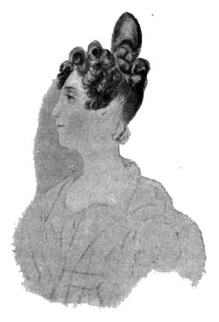 Mathilda Montgomery-Cederhielm (born d'Orozco), Spanish-Swedish composer